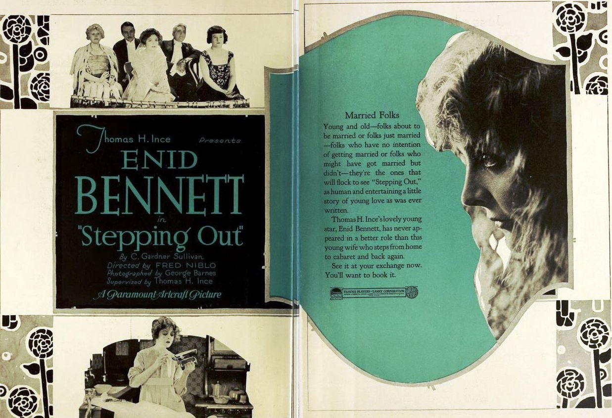 Ad for the American film Stepping Out (1919) with Enid Bennett, on pages 574 and 575 of the August 2, 1919 Motion Picture News.